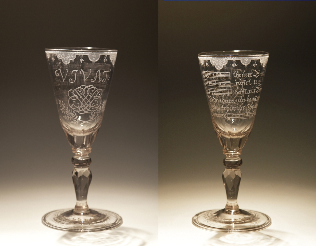 The Bach Goblet on display at the Bachhaus Eisenach was given to Johann Sebastian Bach in around 1735.